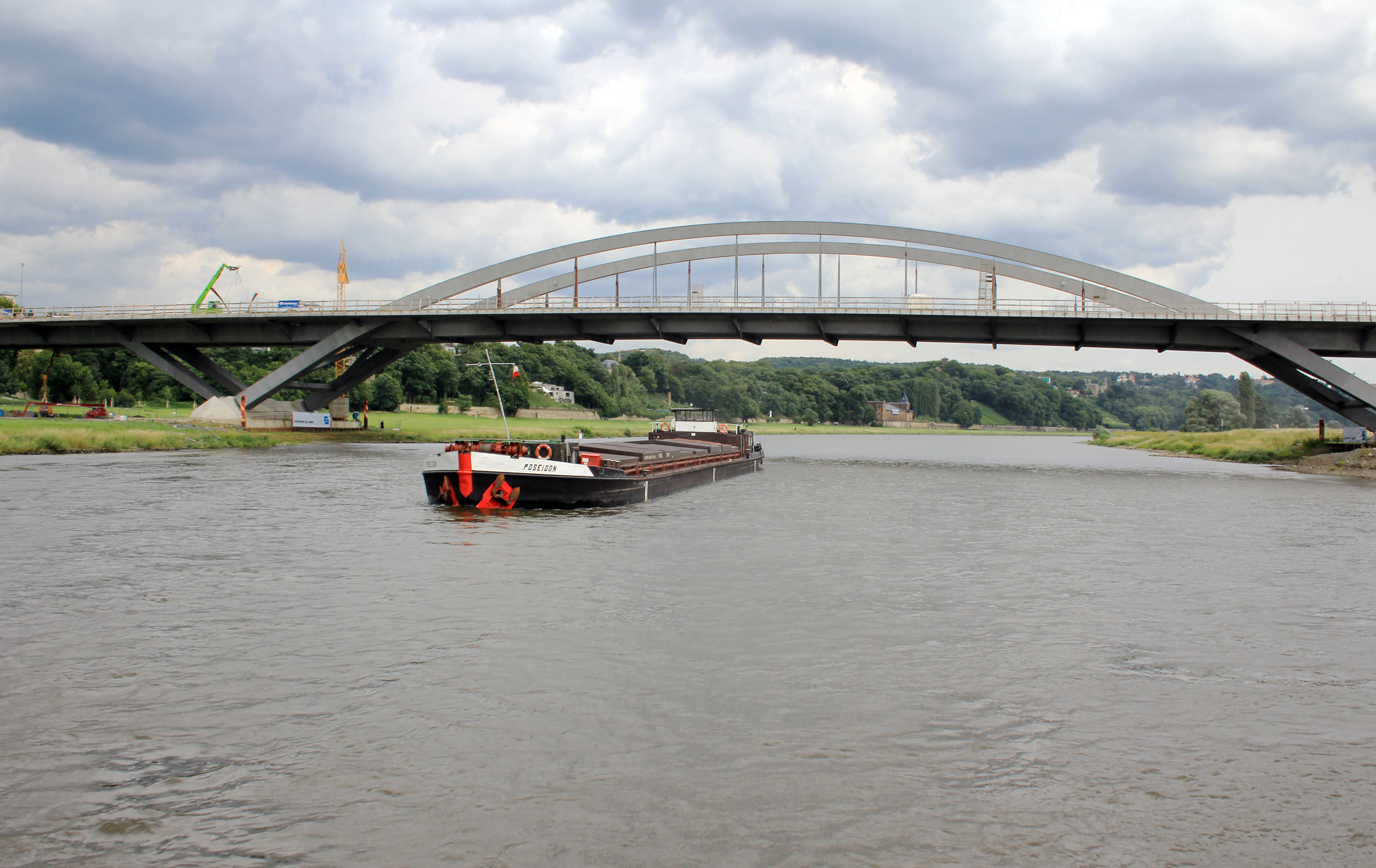 View on bridge Waldschlösschen Bridge with boat Poseidon from boat on Elbe river near of Dresden town in Germany